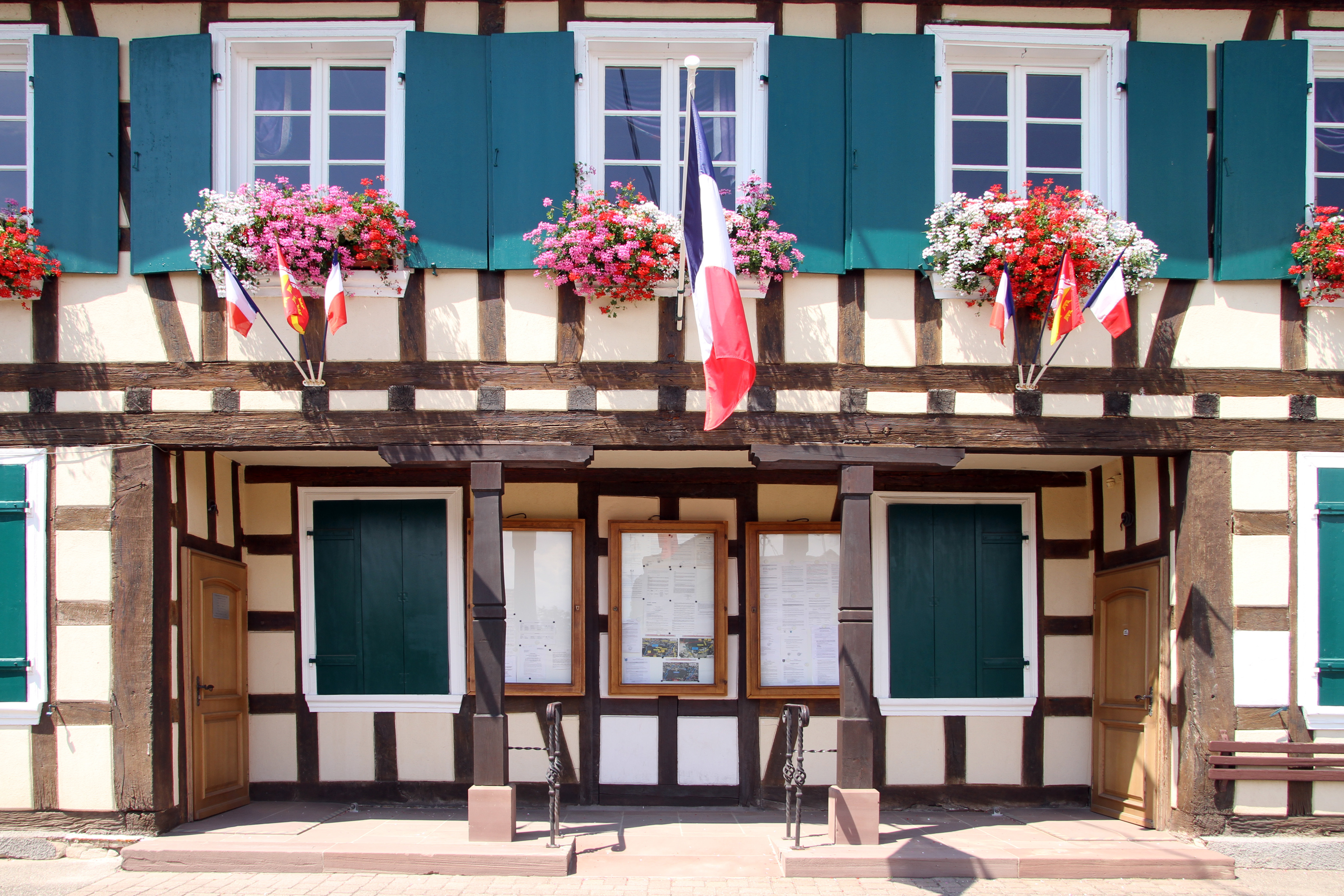 City hall of Rountzenheim.